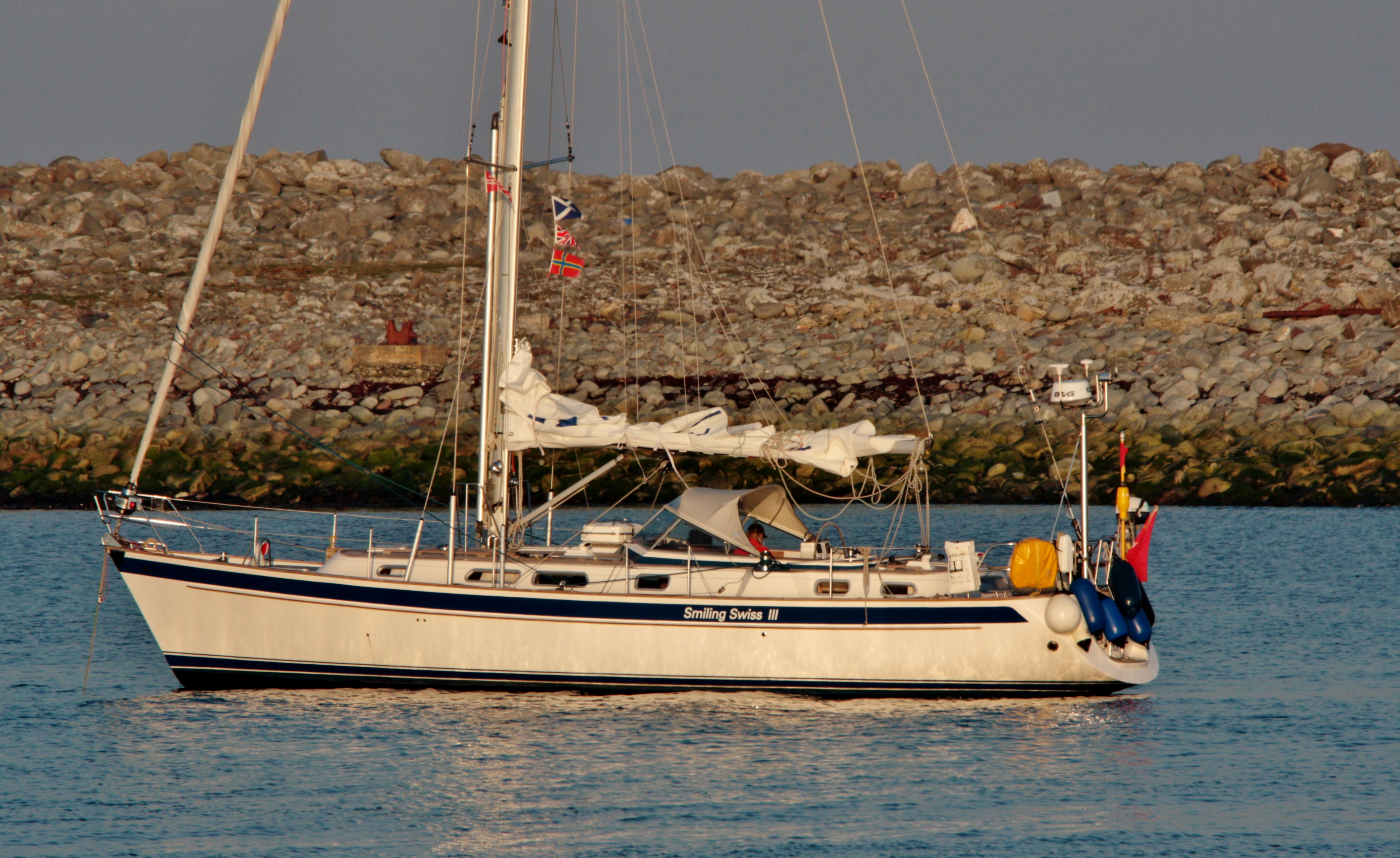 HR 43 Mk I Anchored at Grutness